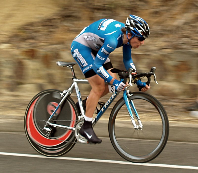 Australian cyclist Trent Lowe (Discovery Channel, riding for the Australian National Team) during the Stage 6 time trial of the 2006 Herald Sun Tour, Kew Boulevard, Melbourne, Australia.